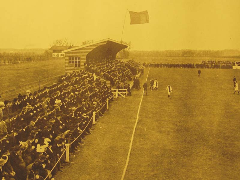 stadium HFC Haarlem 1907